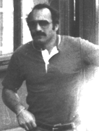 This is an FBI surveillance photo of former FBI agent, Joseph D. Pistone.